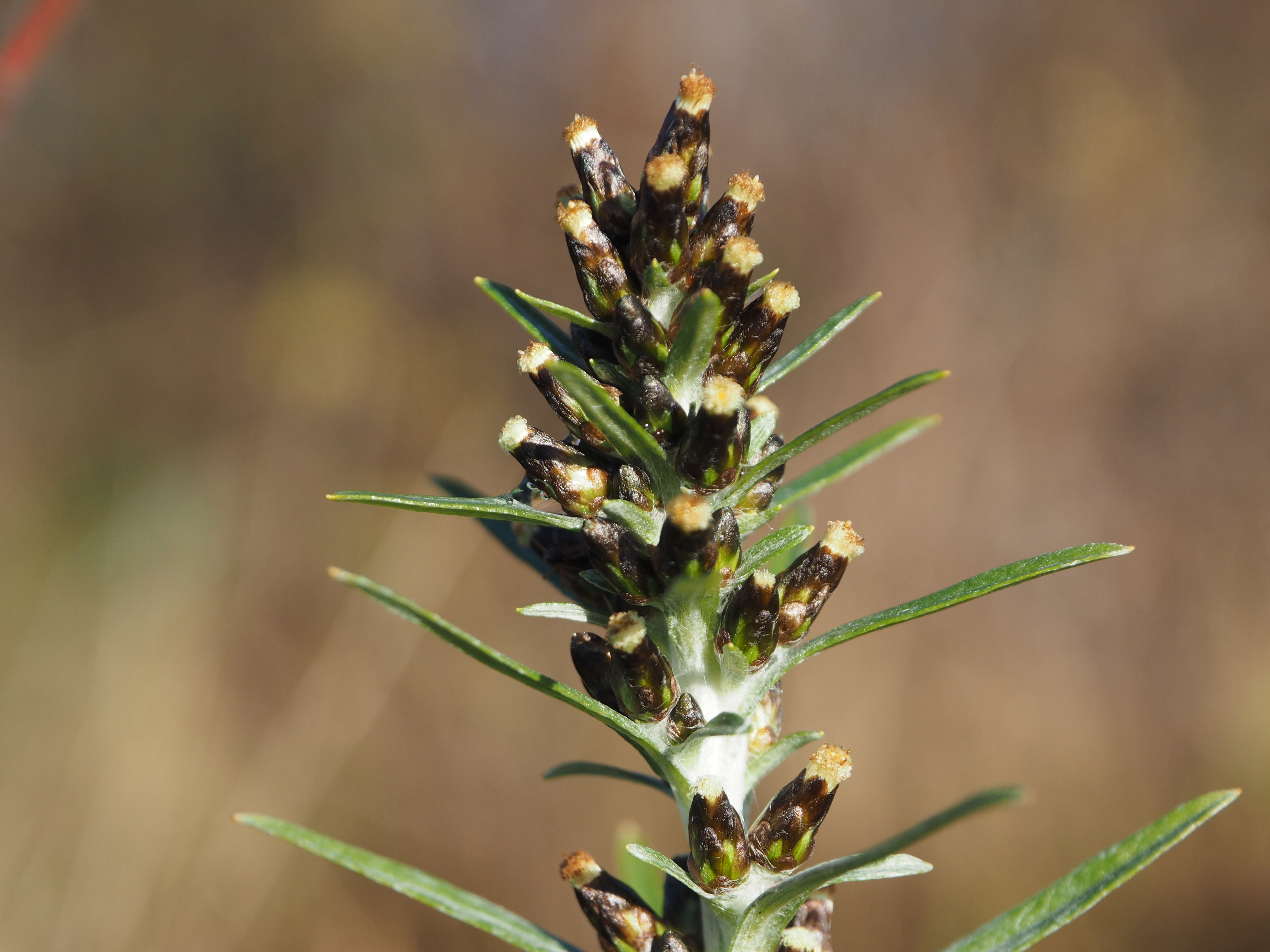 Gnaphalium sylvaticum Southern Heath Nature Park